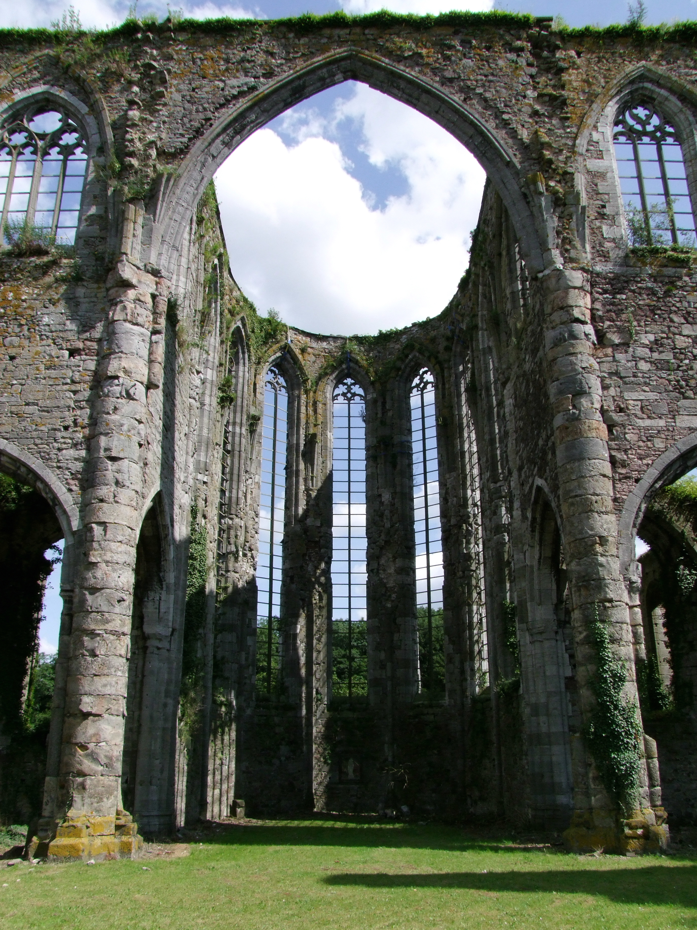 A thriving religious and cultural hub, until the fatal 14th of May 1794, when plundered and ruined by French troops -- like many, many other places.